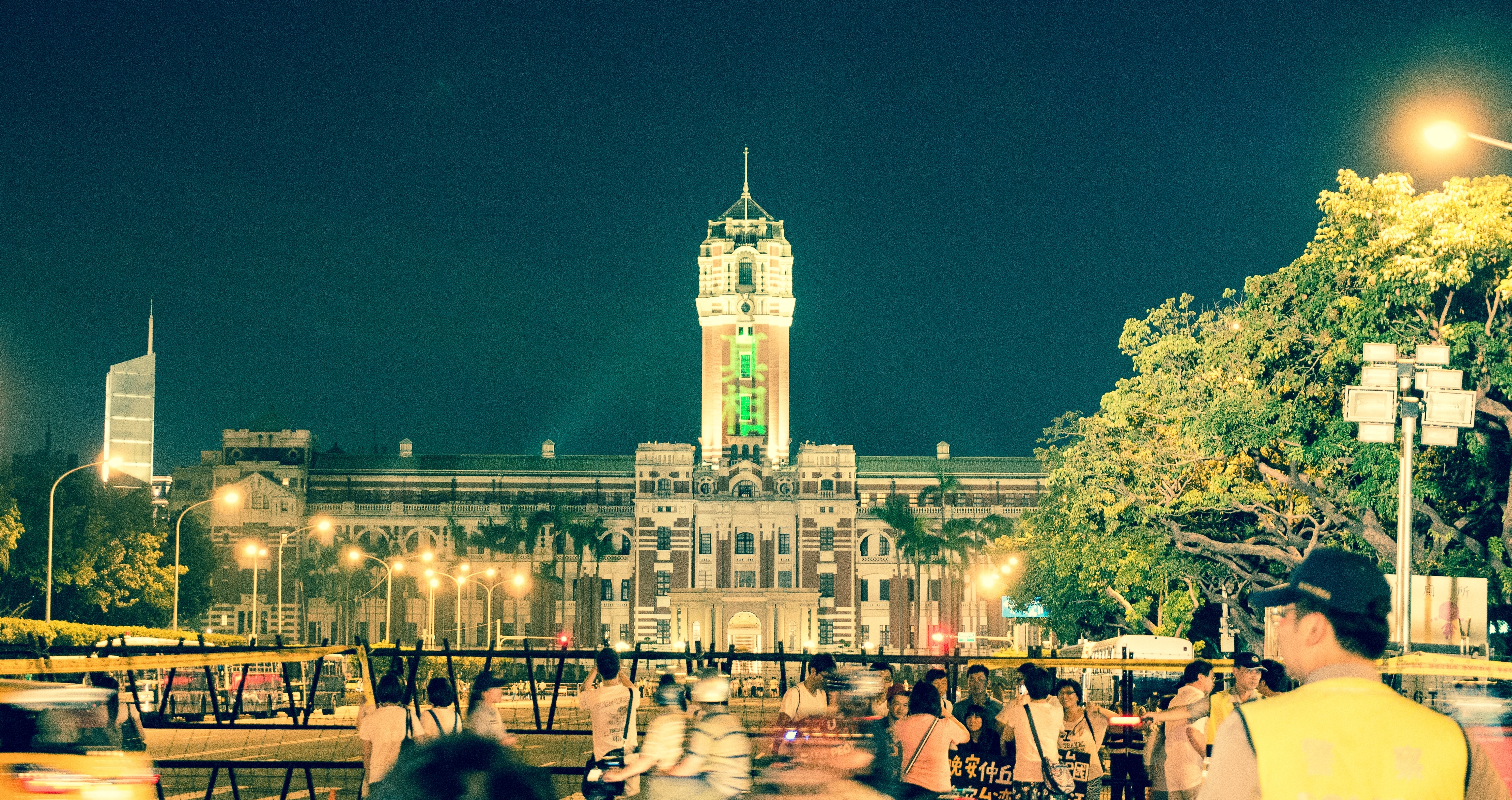 民眾於「八月雪公民運動」在臺北市總統府上投射字樣